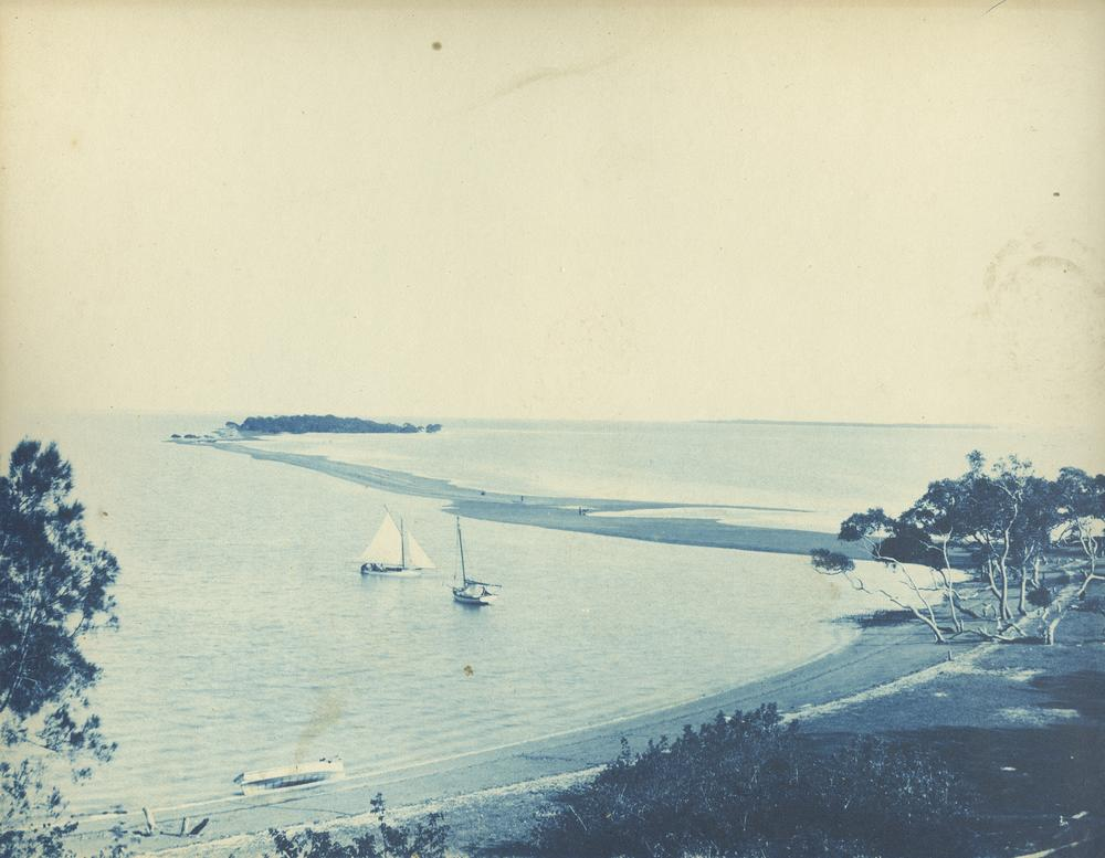 Low tide at Wellington Point. Sandbar out to King Island at low tide off Wellington Point in the Redlands Shire.